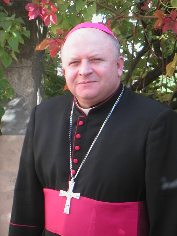 Helsingin katolinen piispa Józef Wróbel SCJ Catholic Bishop of Helsinki